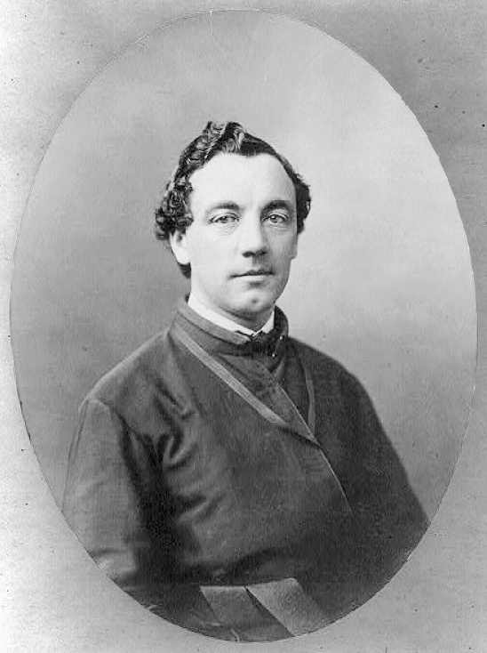 Rev. Patrick Francis Healy, S.J. (1834-1910)